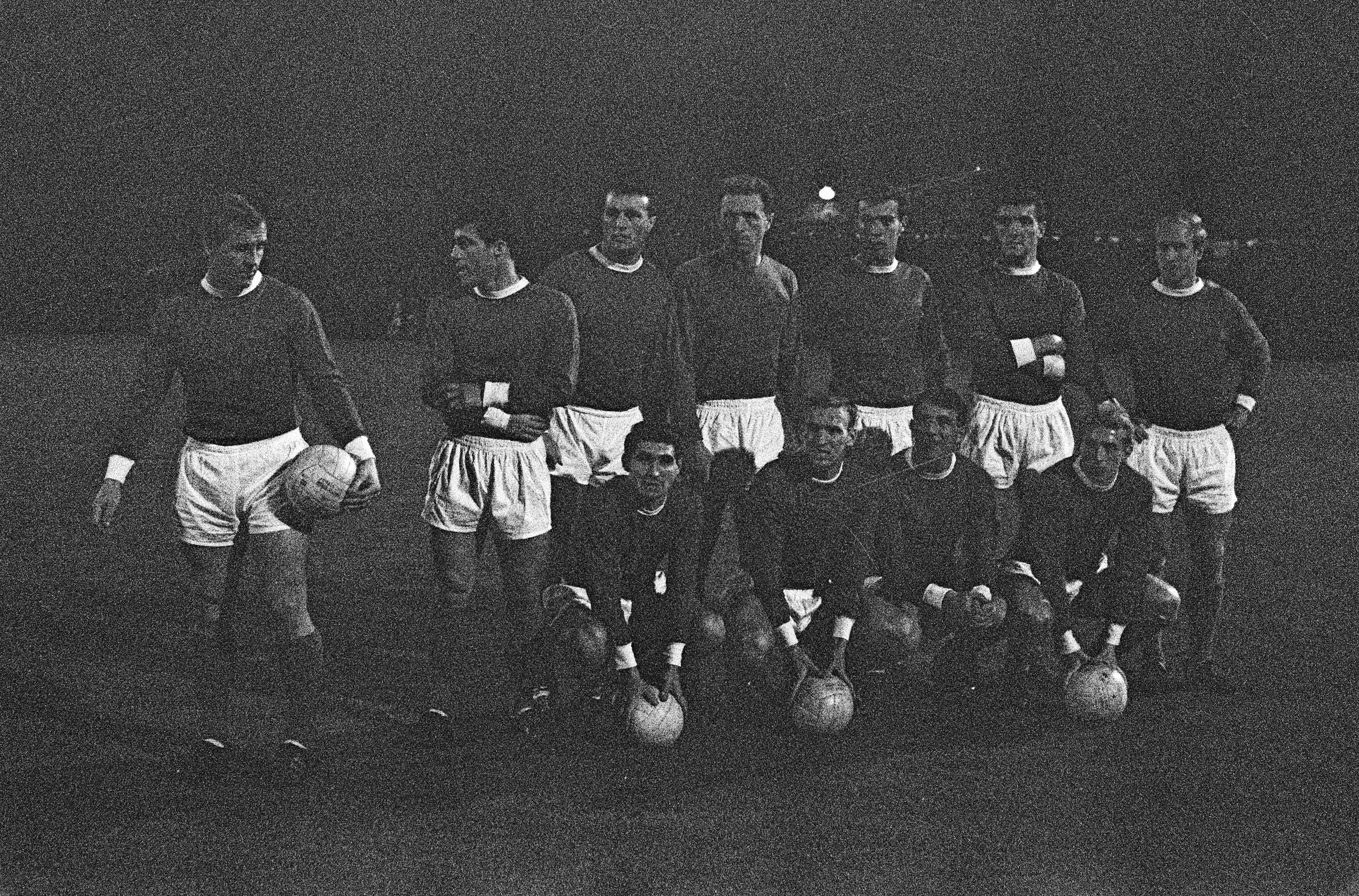 Manchester United team, 25 Sept. 1963 in Rotterdam before playing Willem II Tilburg (the Netherlands): 1-1. Players included David Herd, Bobby Charlton, Harry Gregg (back row, 4th left), Denis Law, Bill Foulkes (back row, 2nd right).